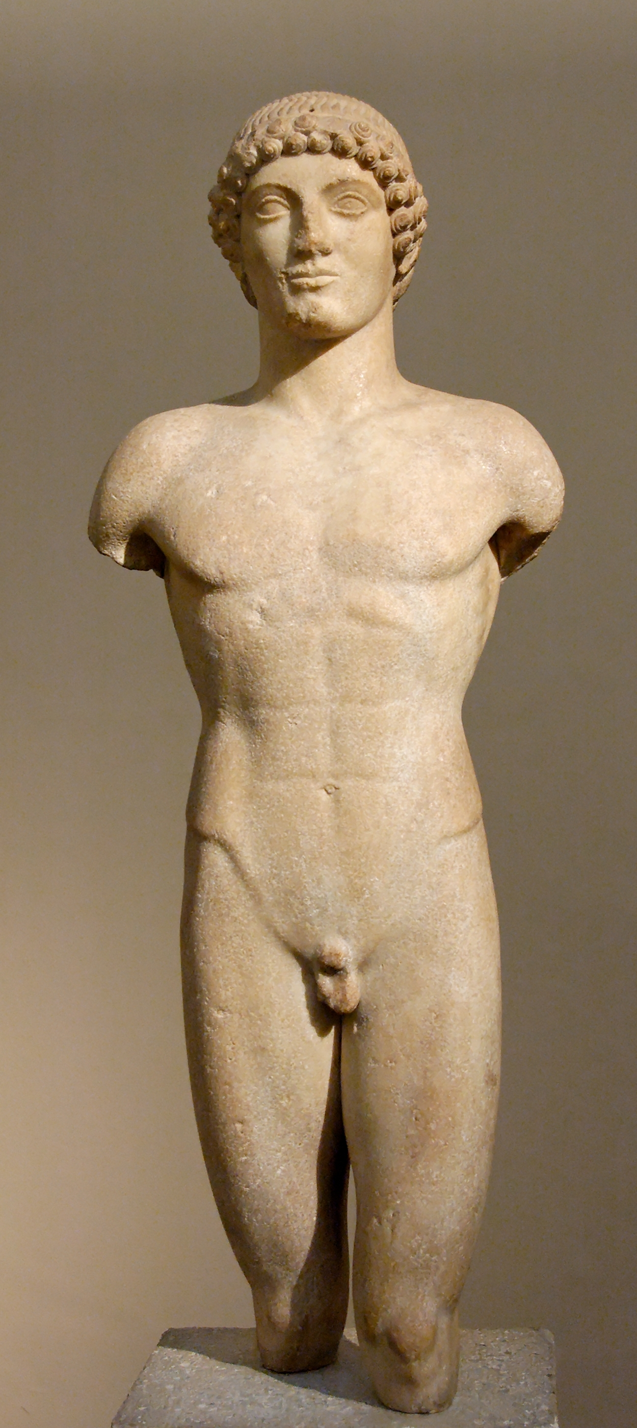 Kouros, so-called “Strangford Apollo”. Marble, ca. 510-500 BC. From the island of Anaphe (?).